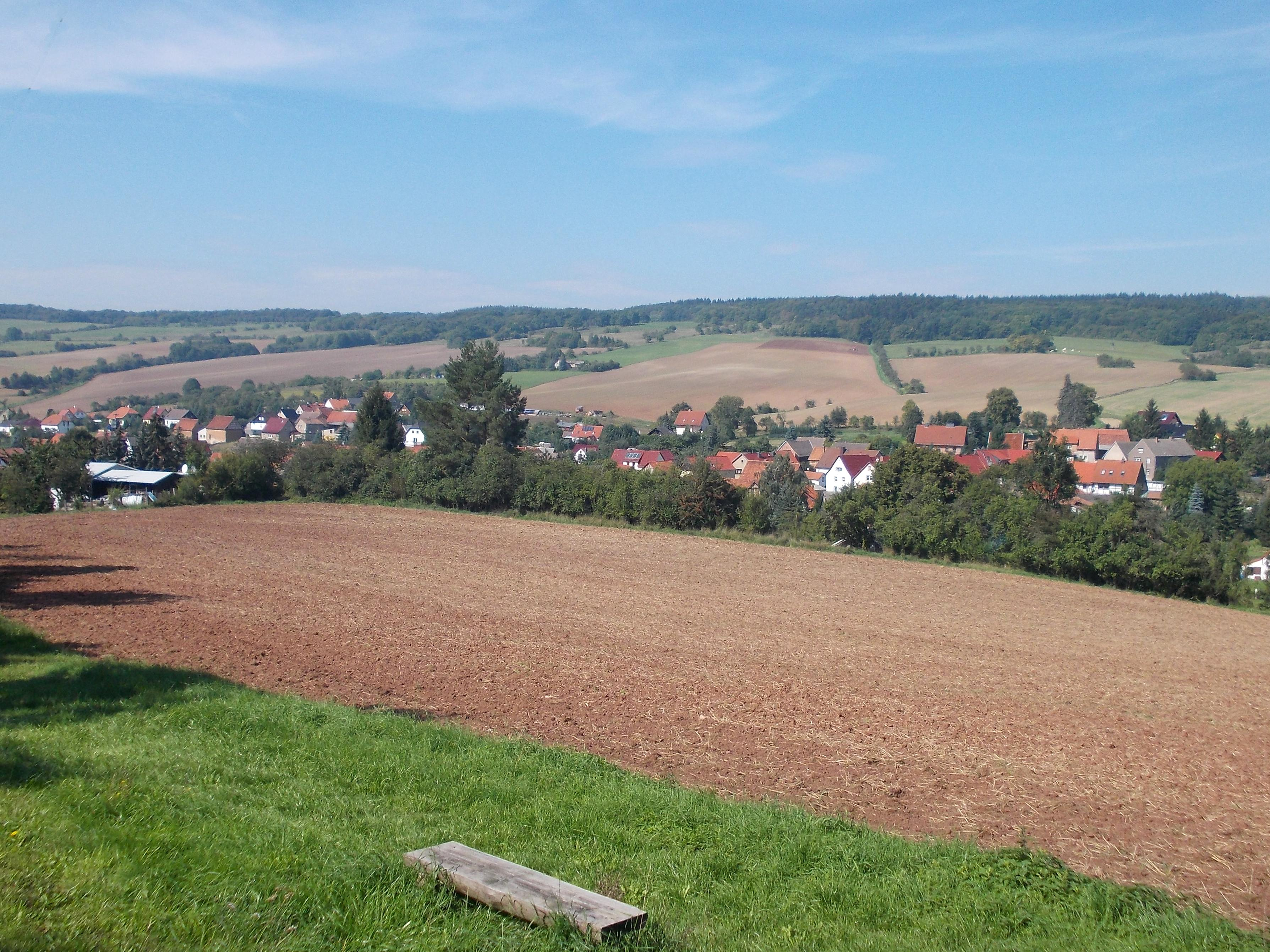 Pölsfeld (Allstedt, Mansfeld-Südharz district, Saxony-Anhalt) from the south-east